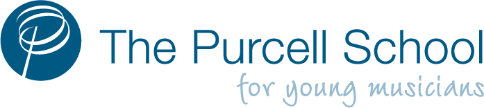 The Purcell School for Young Musicians logo